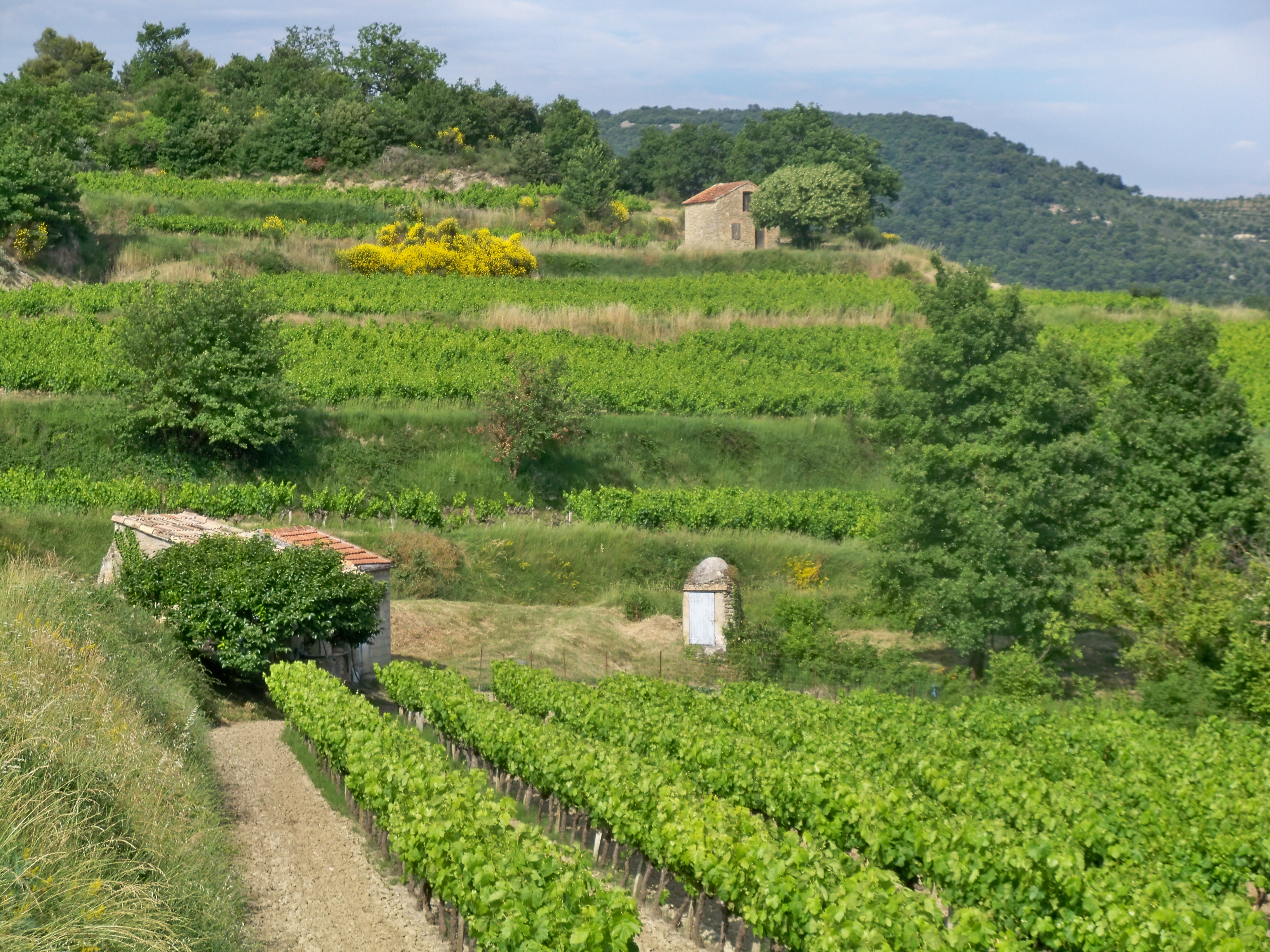 Water well and field houses in the Comtat venaissin vineyard, Vaucluse, France